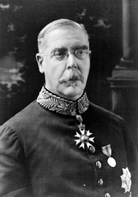 Portrait of Sir Walter Davidson, Governor of NSW (1918-1923)